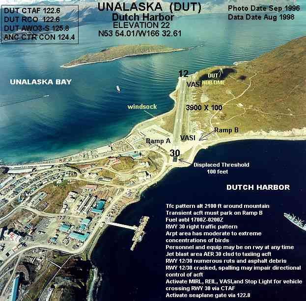 Annotated aerial photograph of Unalaska Airport (FAA: DUT) in Unalaska (Dutch Harbor), Alaska, United States.